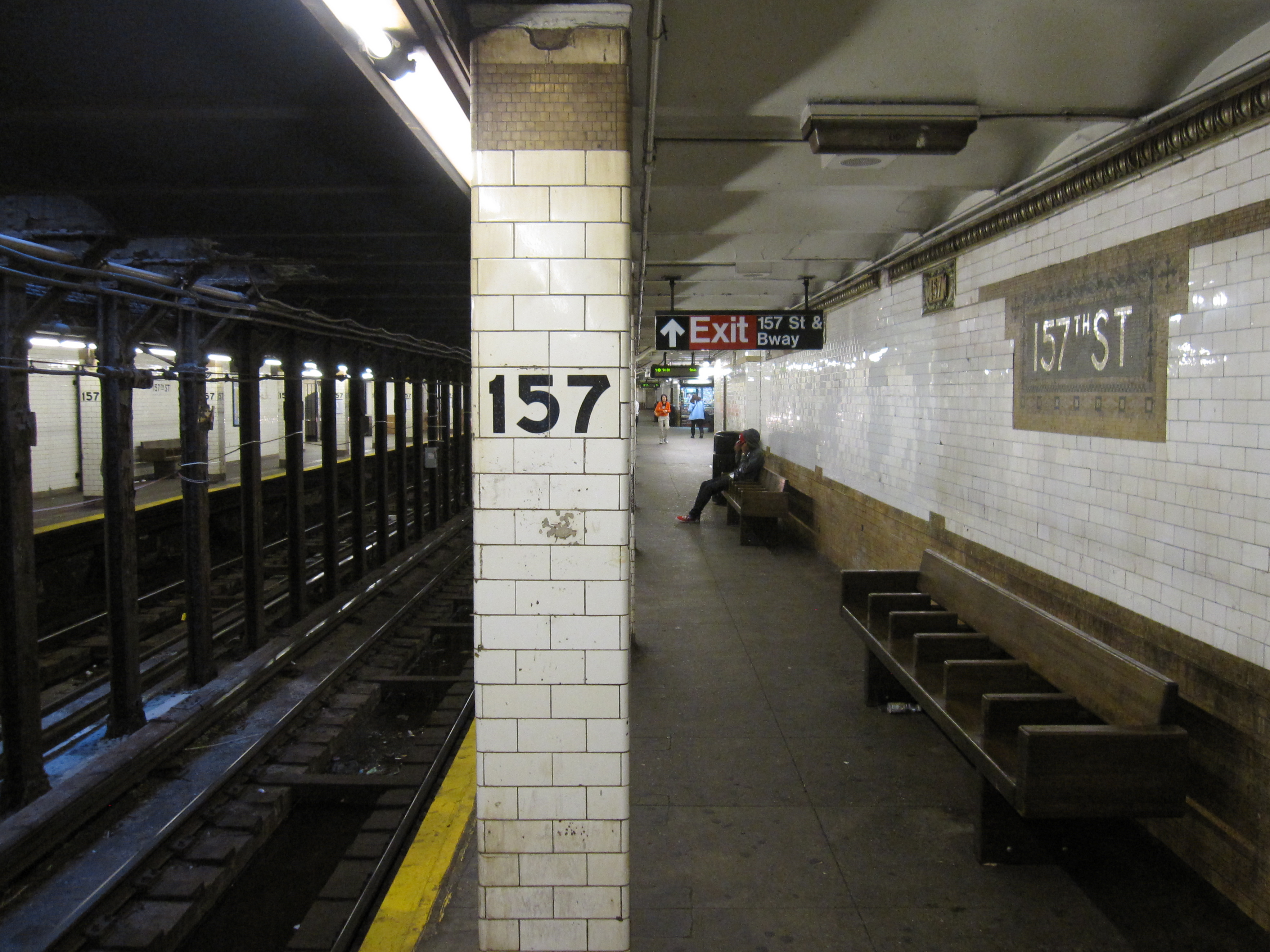 157th Street (IRT Broadway – Seventh Avenue Line)